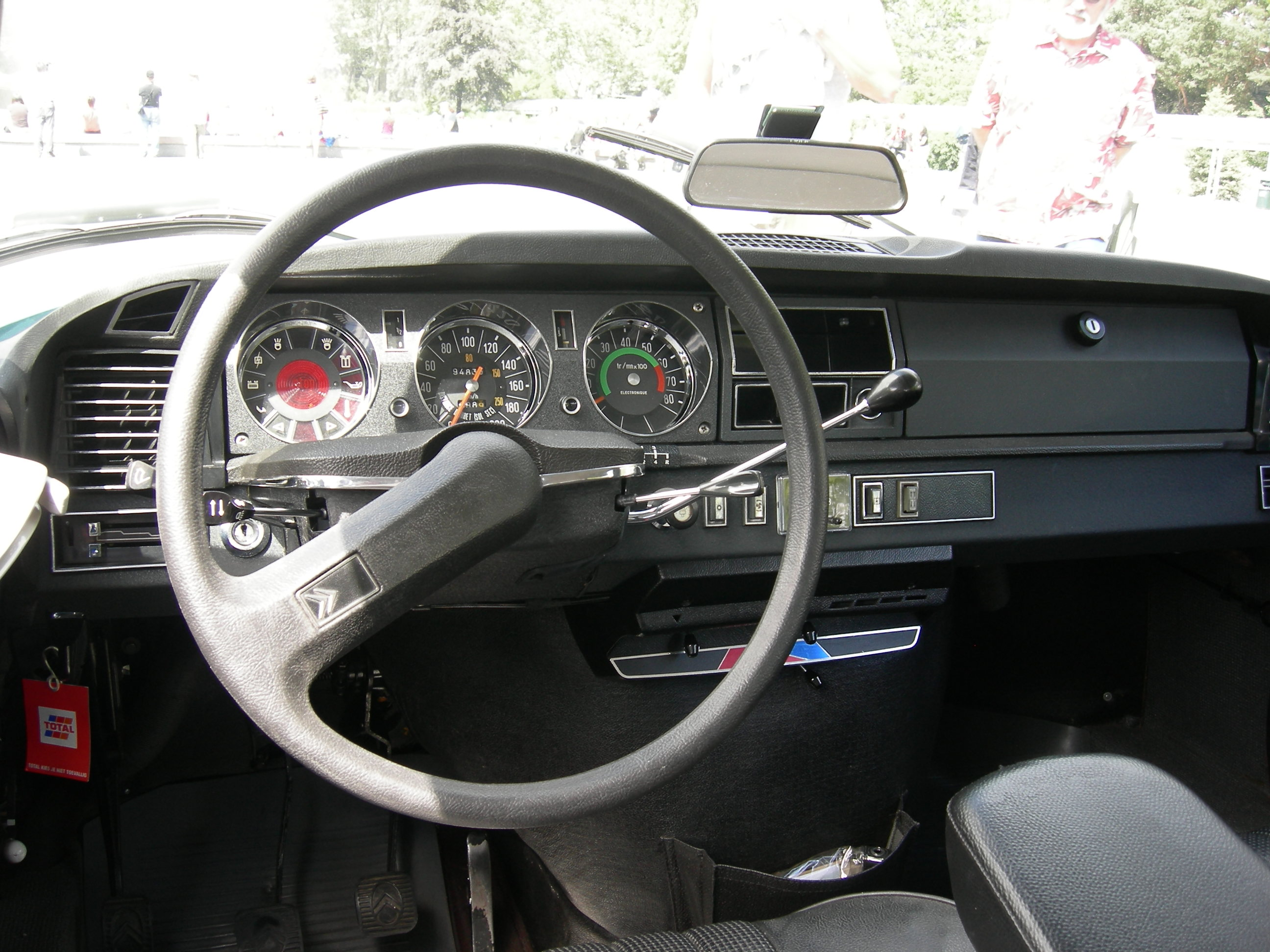 Steering wheel and dashboard of 1974 Citroën DS.